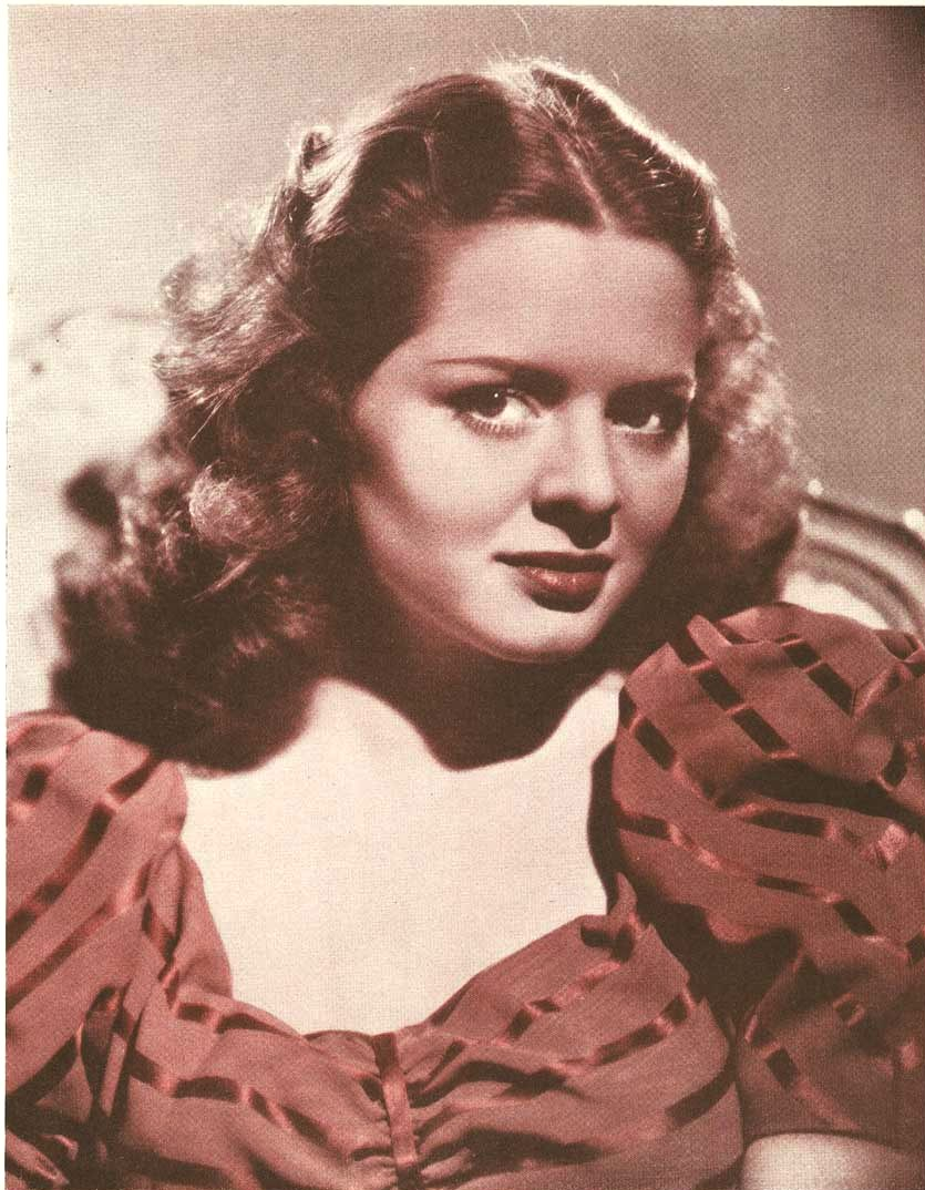 Publicity photo of Arleen Whelan for Argentinean Magazine. (Printed in USA)